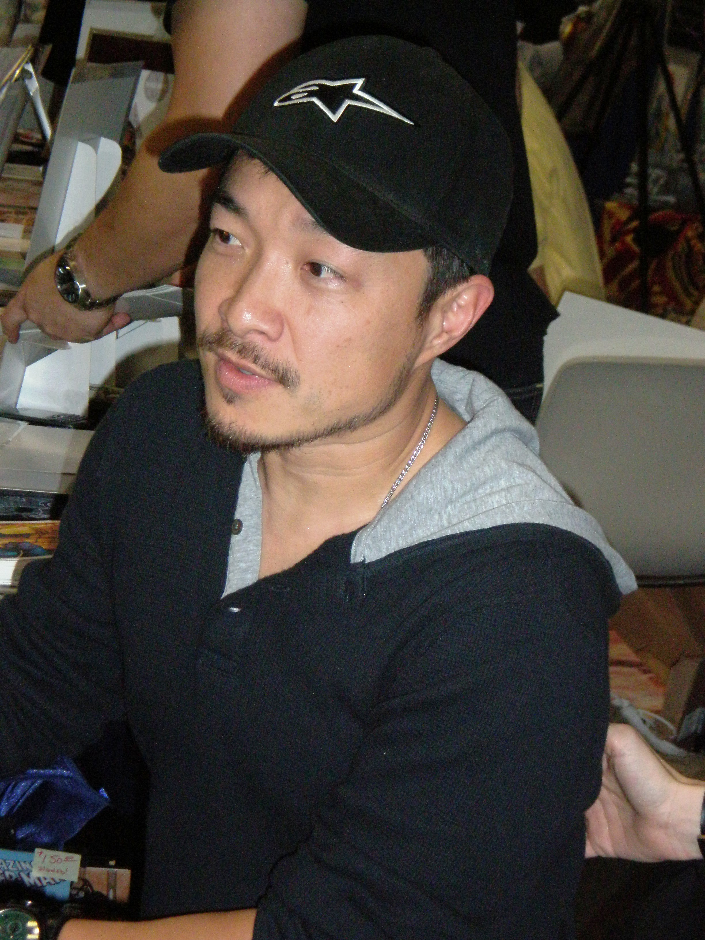 Jim Lee at WonderCon 2009.